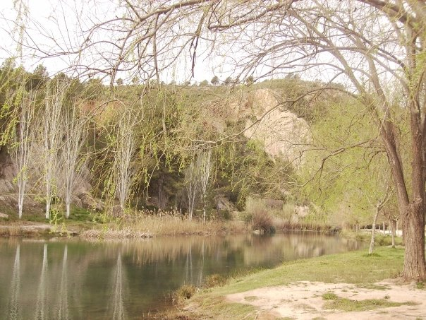 Río Turia, Bugarra, Los Serranos 2007